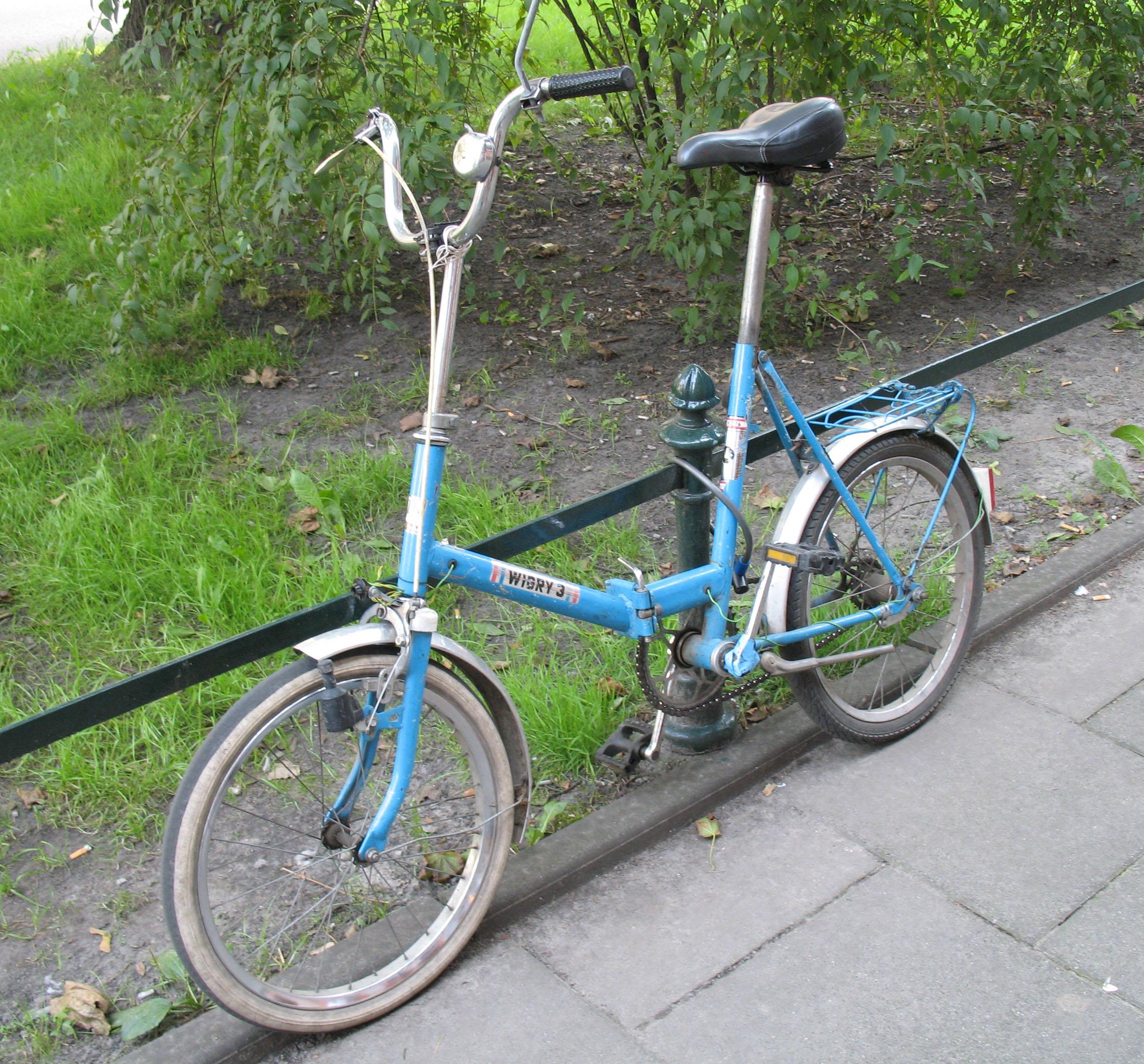 Romet Wigry 3 bicycle in Kraków, Poland.